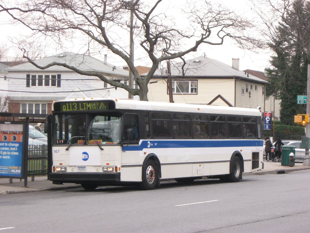 MTA Bus #167 (ex-Bee-Line #467) reaches the final stop on its Q113 Limited run in Far Rockaway, NY.